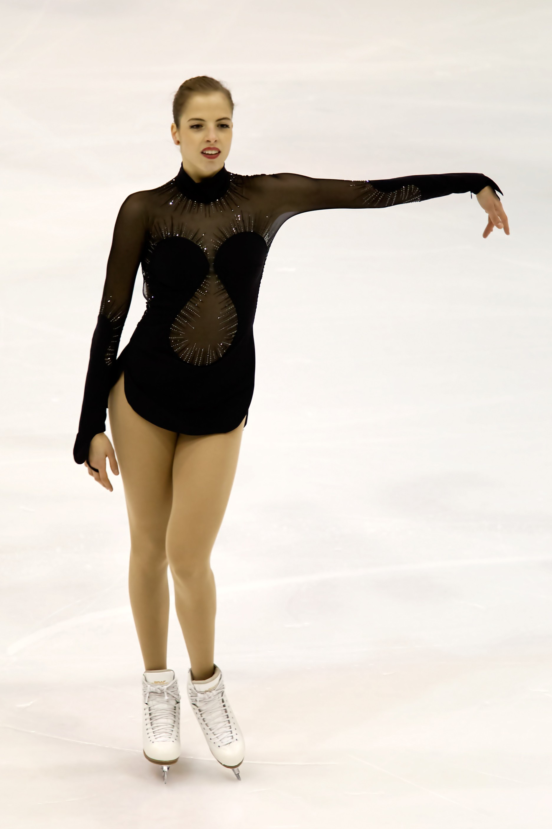 Carolina Kostner skates to "Bolero" at 2013 Italian Figure Skating Championships